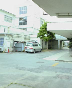 Ise high school building.(Japan)